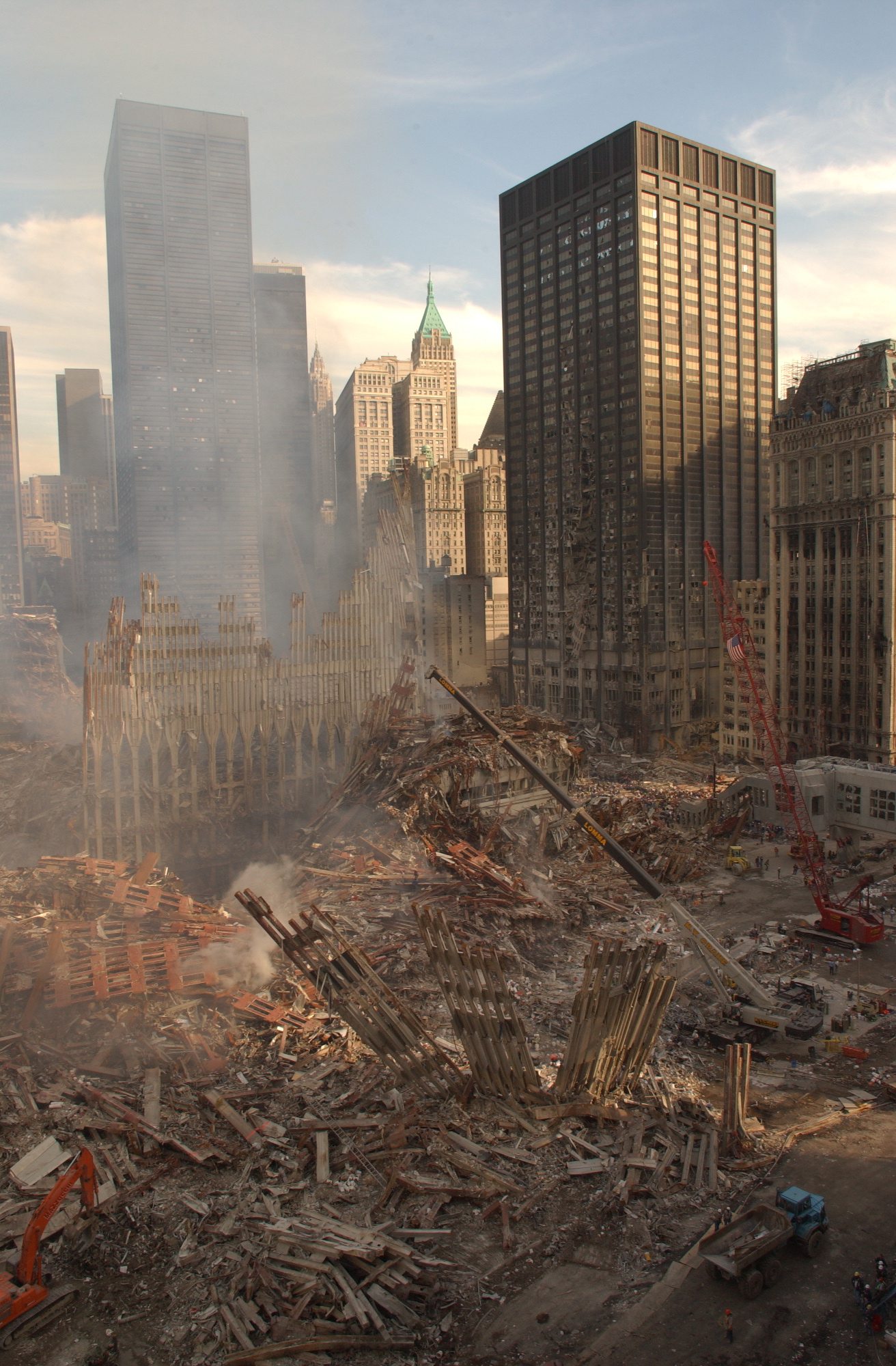 New York City, NY, September 17, 2001 -- More than a million tons of rubble must be dealt with at the World Trade Center. Photo by Andrea Booher/ FEMA News Photo